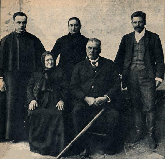 The Caro family of Pichilemu. From left to right: José María Caro Rodríguez, Rita Rodríguez Acevedo, Rita Caro Rodríguez, José María Caro Martínez, and Pedro Pablo Caro Rodríguez.